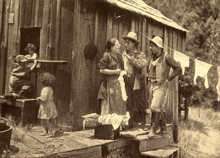 Still from the American film Salomy Jane (1914) with Clara Beyers and William Pike, facing page 46 of the 1915 edition of the Bret Harte novel. Caption: At Red Pete's house.